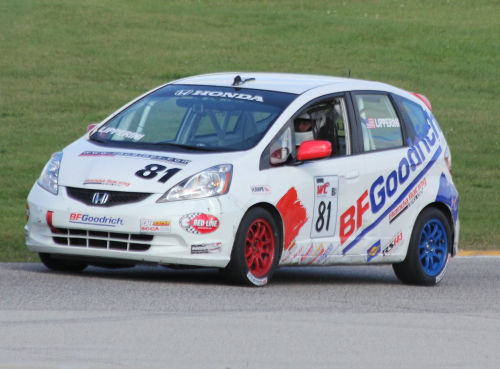 Joel Lipperini racing to 2nd place finish in B Spec at the 2013 SCCA National Championship runoffs.